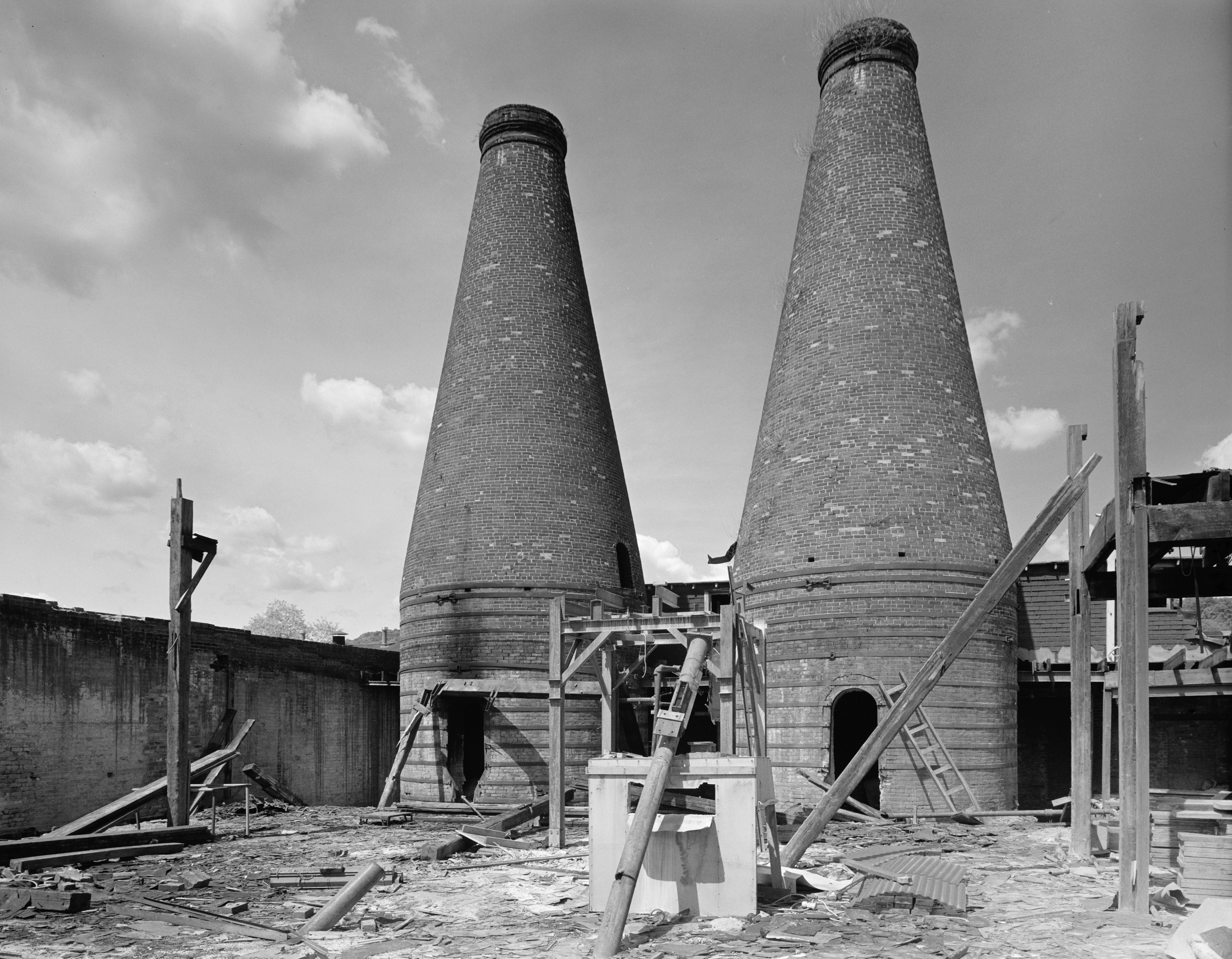 Abandoned ovens at the Seneca Glass Company, located at 709 Beechurst Avenue in Morgantown, West Virginia, United States. Built in 1897, the company complex is listed on the National Register of Historic Places.